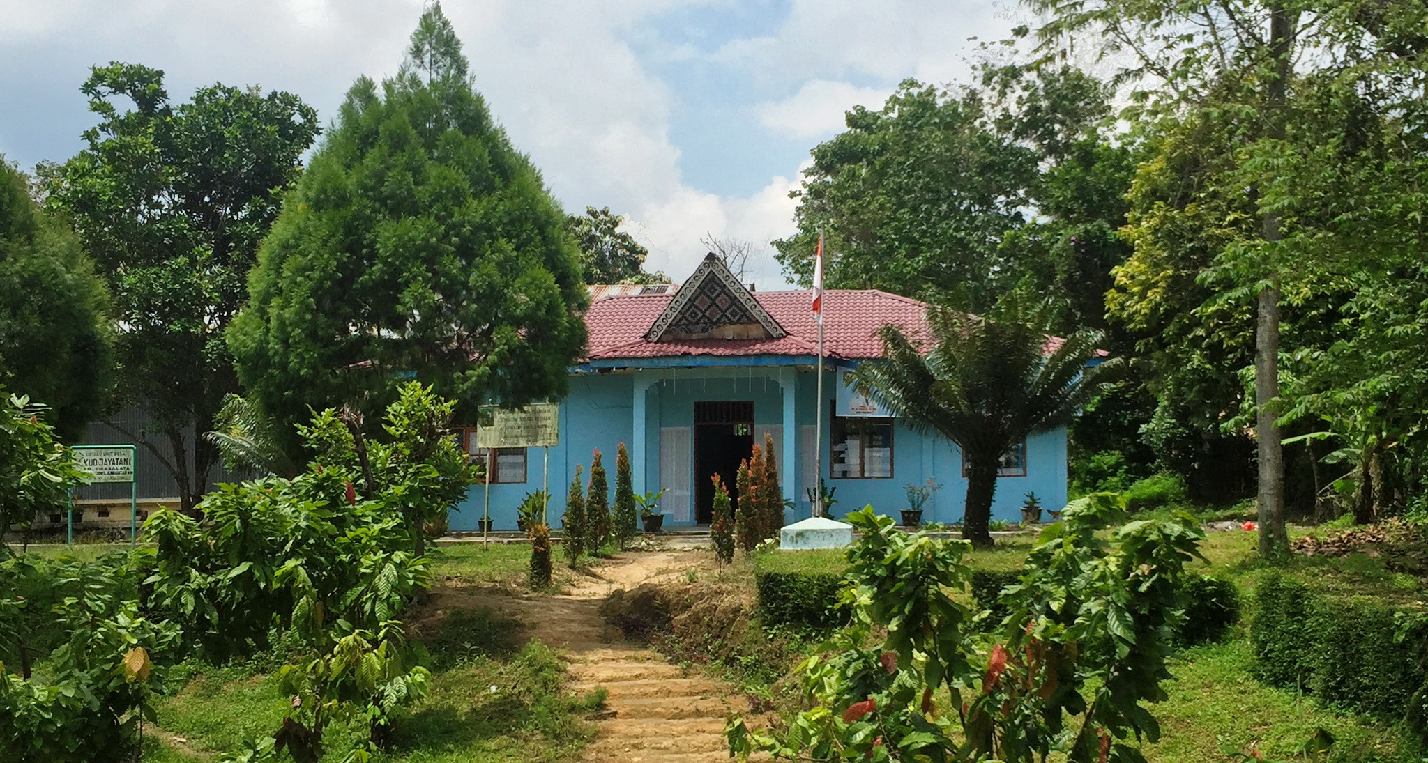 Office of Tiga Balata, Jorlang Hataran, Simalungun